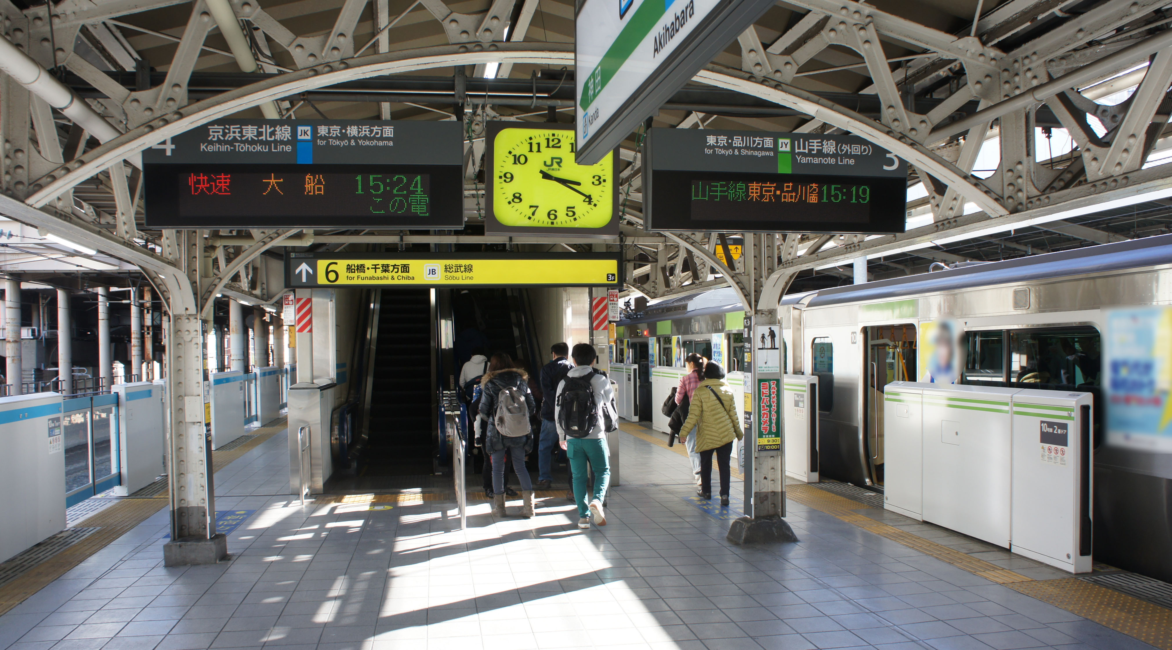 Platform 3・4 of JR Akihabara Station Sony NEX-3 + E 18-55mm F3.5-5.6 OSS